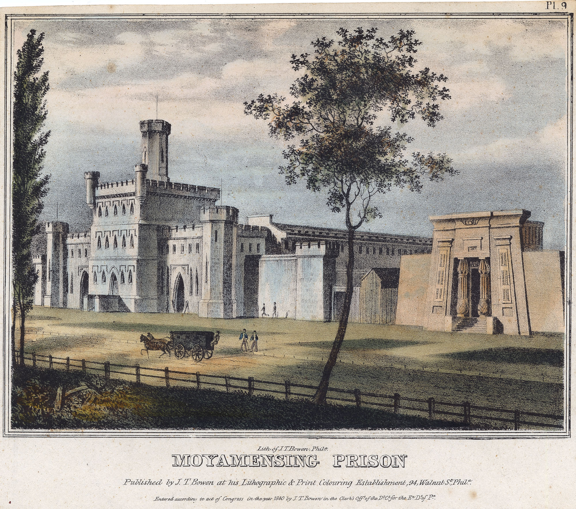 This view shows the prison built in 1832−35 after the designs of Thomas Ustick Walter (1804−87) at Tenth and Reed Streets in Philadelphia. A horse-drawn wagon used to carry convicts, known as a Black Maria, draws toward the front of the Gothic-style building. Two men watch the carriage from near the road and two others are visible close to one of the battlement towers. The prison, which operated under a system of solitary confinement, was demolished in 1968. The print was originally published as Plate 9 in Views of Philadelphia, and Its Vicinity, published by the firm J.C. Wild & J.B. Chevalier, Lithographers (Philadelphia, 1838). The lithographic stones for the views were acquired by John T. Bowen and reissued in 1838 and in 1848 with hand coloring. John Caspar Wild (circa 1804–46) was a Swiss-born artist and lithographer who arrived in Philadelphia from Paris in 1832. He produced numerous prints and paintings of Philadelphia and other American cities. Bowen was a prominent Philadelphia lithographer and the most important mid-19th-century American publisher of publication plates. He was born in England circa 1801, immigrated to the United States in 1834, and worked as a colorist and lithographer in New York before relocating to Philadelphia. He took over the firm Wild & Chevalier, including the rights to Views of Philadelphia.